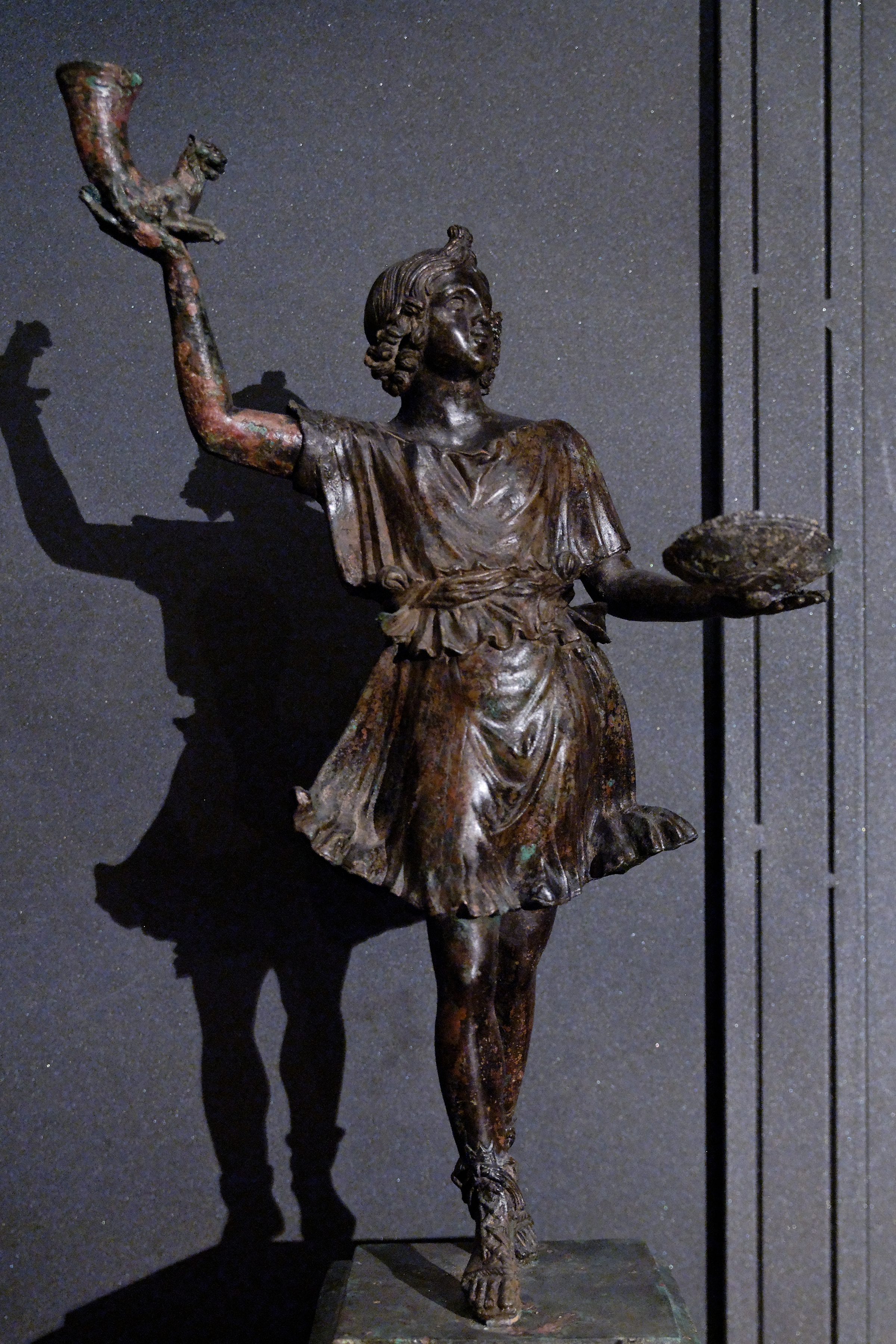 Dancing Lare holding a rhyton and a patera. Bronze statuette, first century AD.